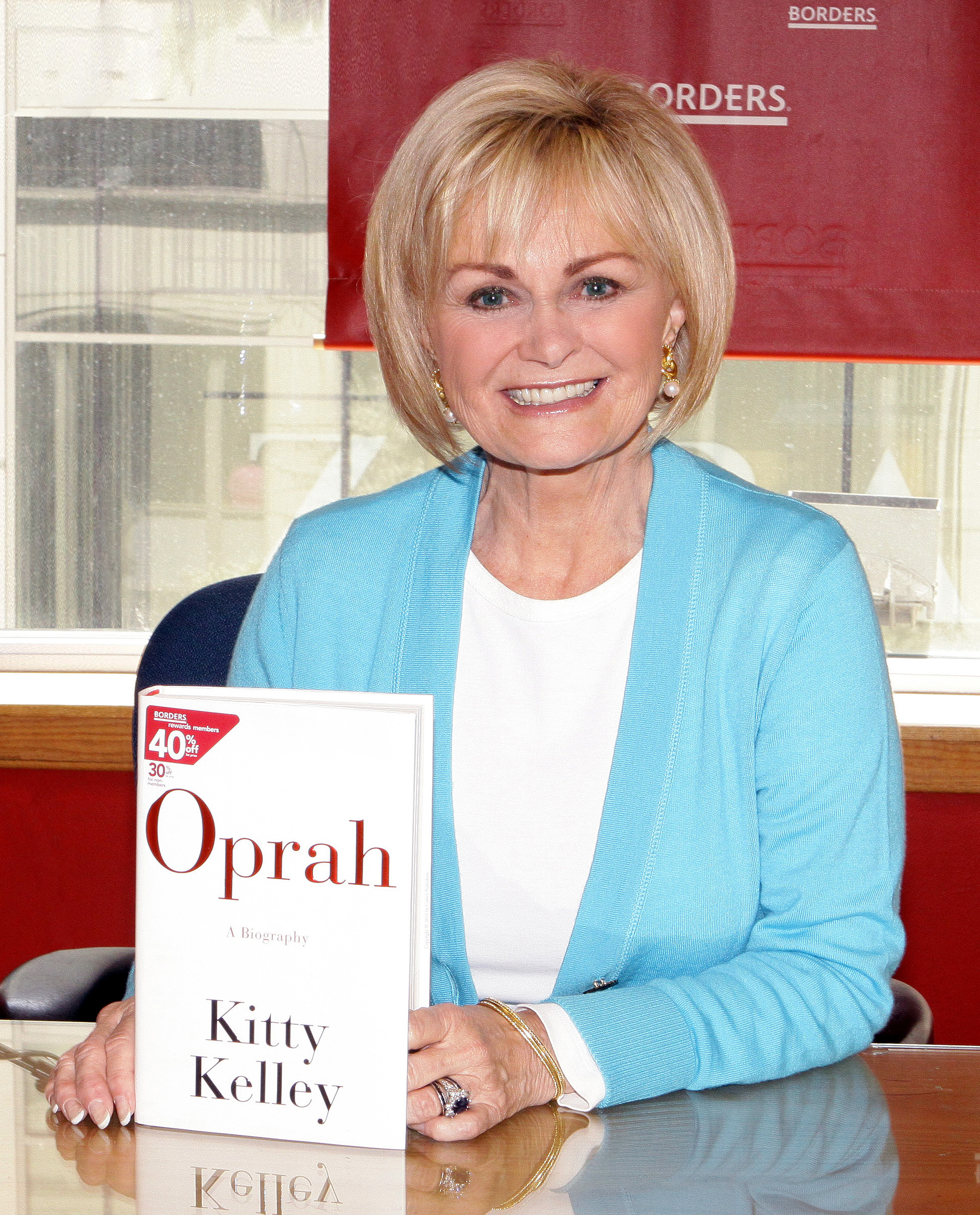 Author Kitty Kelley appears at Borders Books and Music in Chicago.